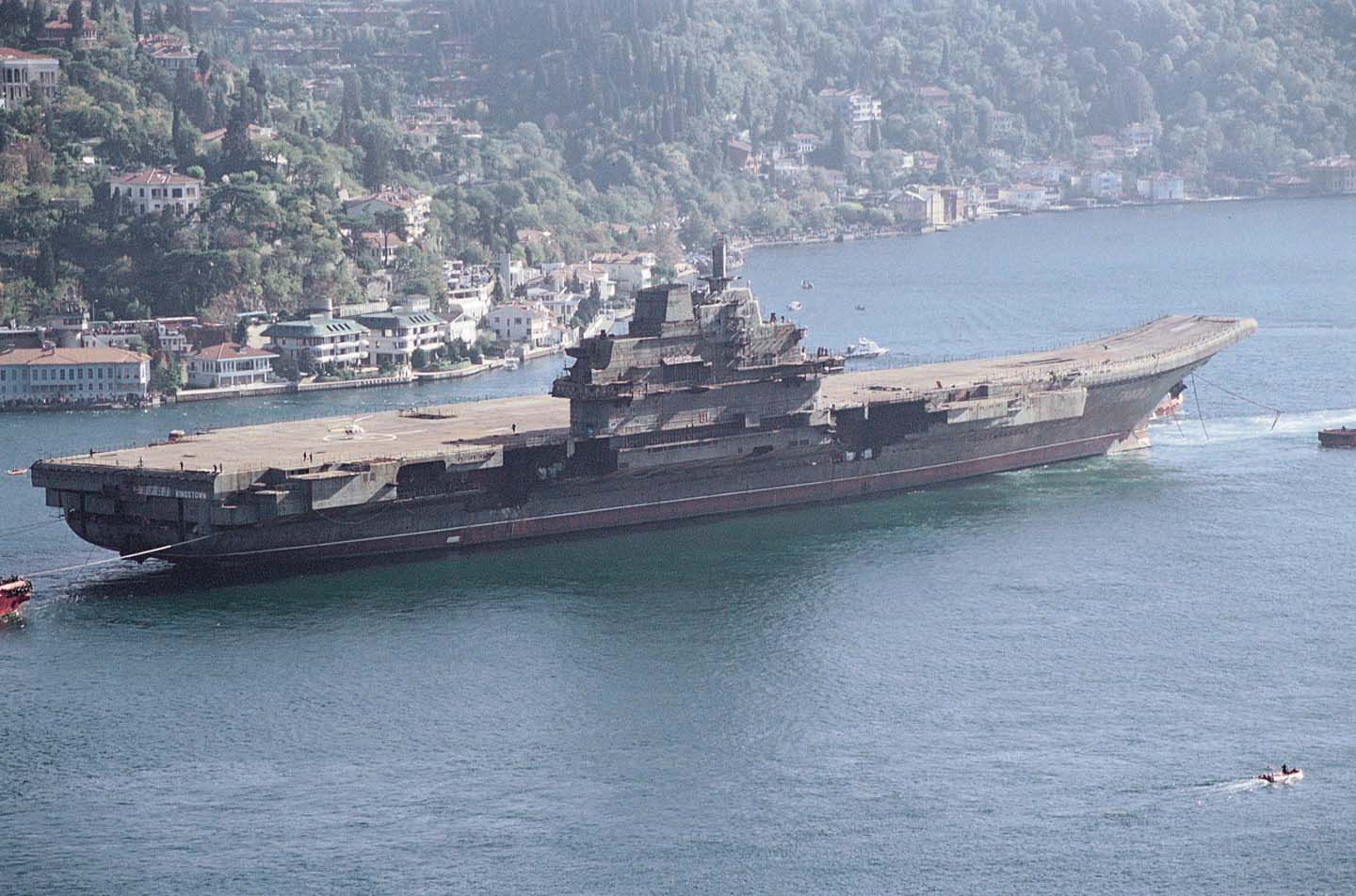 Varyag